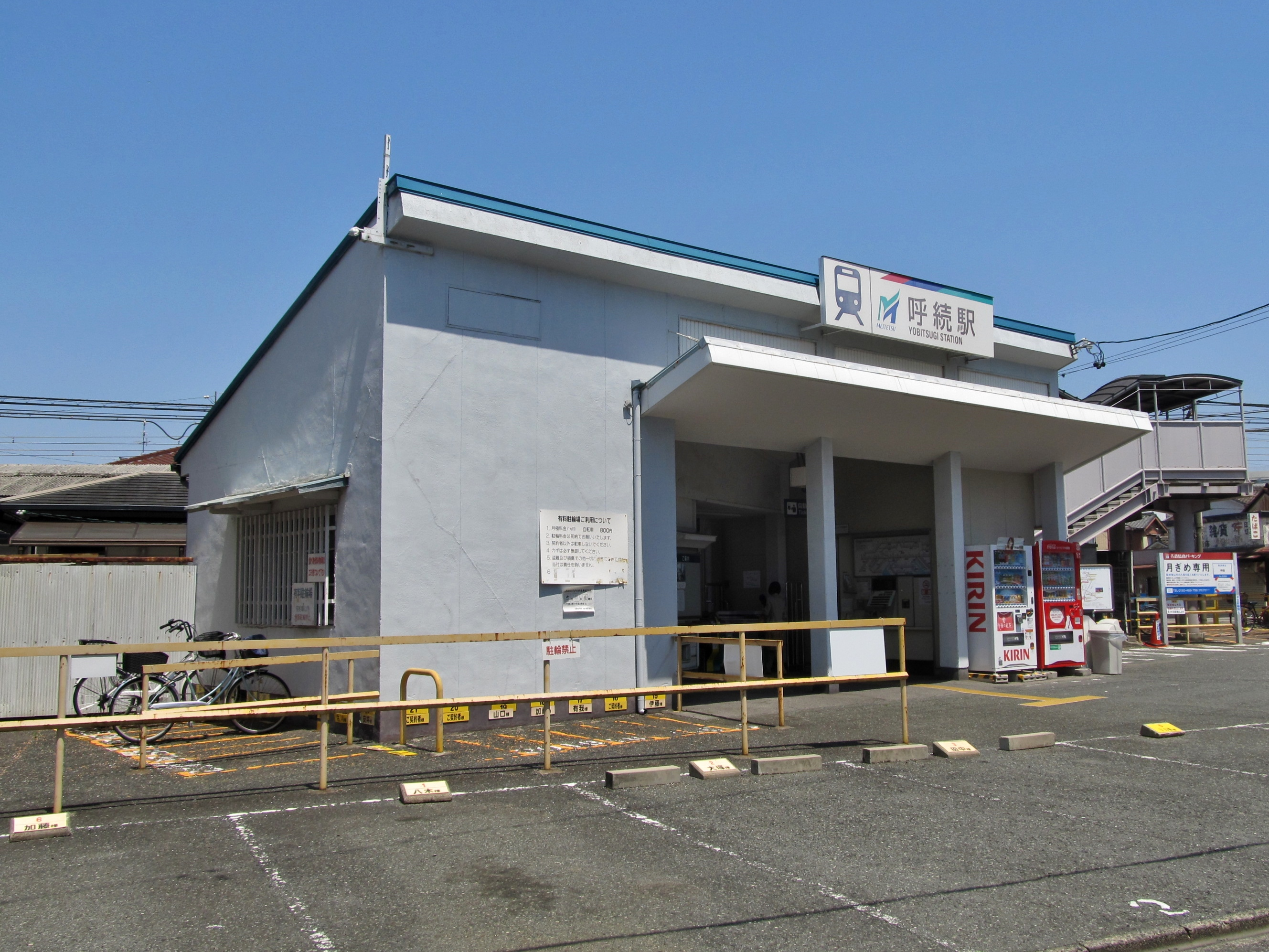 Nagoya Railroad Nagoya Main Line Yobitsugi Station Building